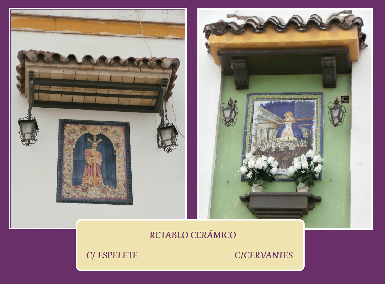 Retablos Cerámicos de los Titulares de la Hdad. del Dolor y Sacrificio